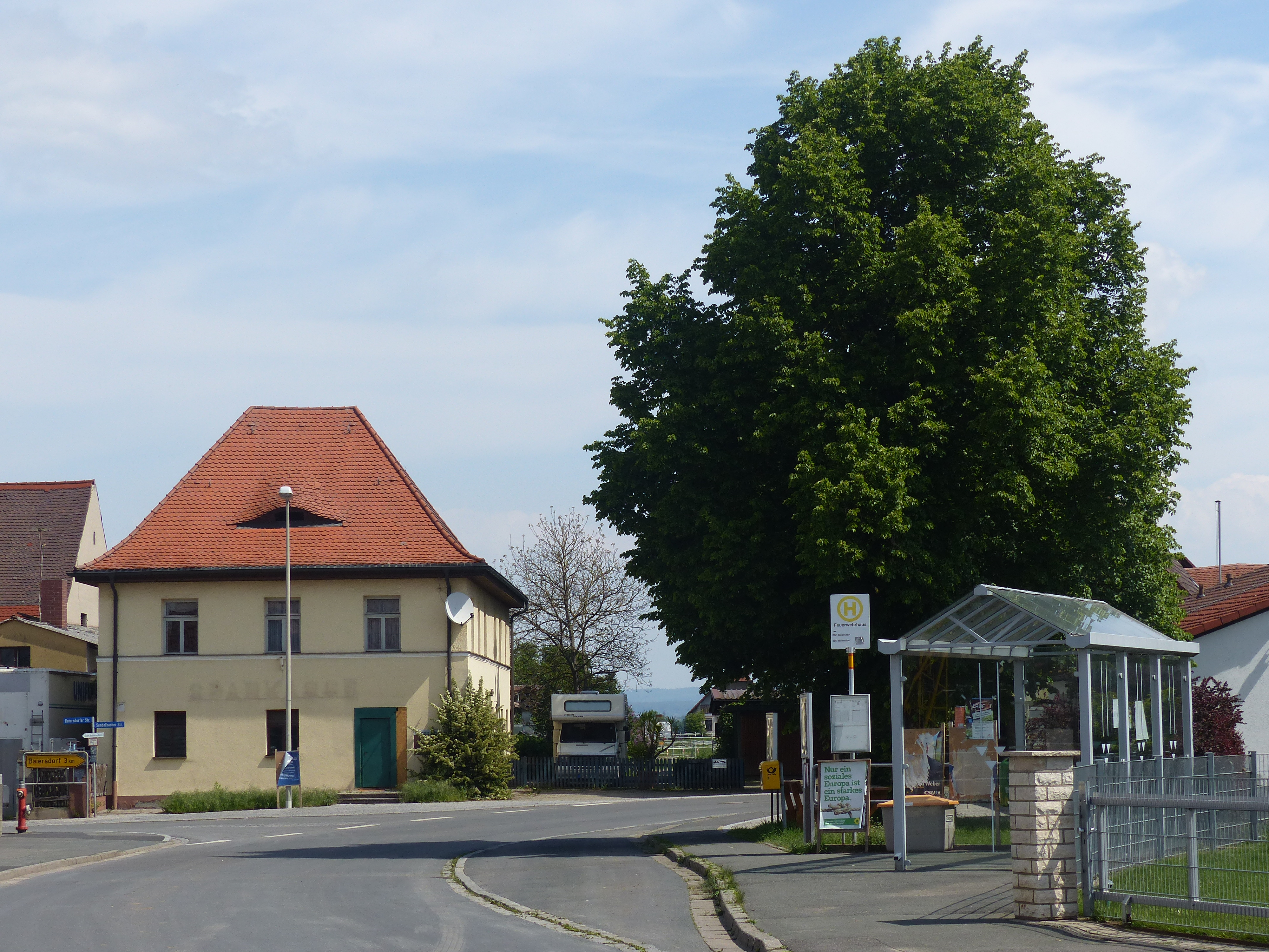 The village Igelsdorf, a district of the town of Baiersdorf